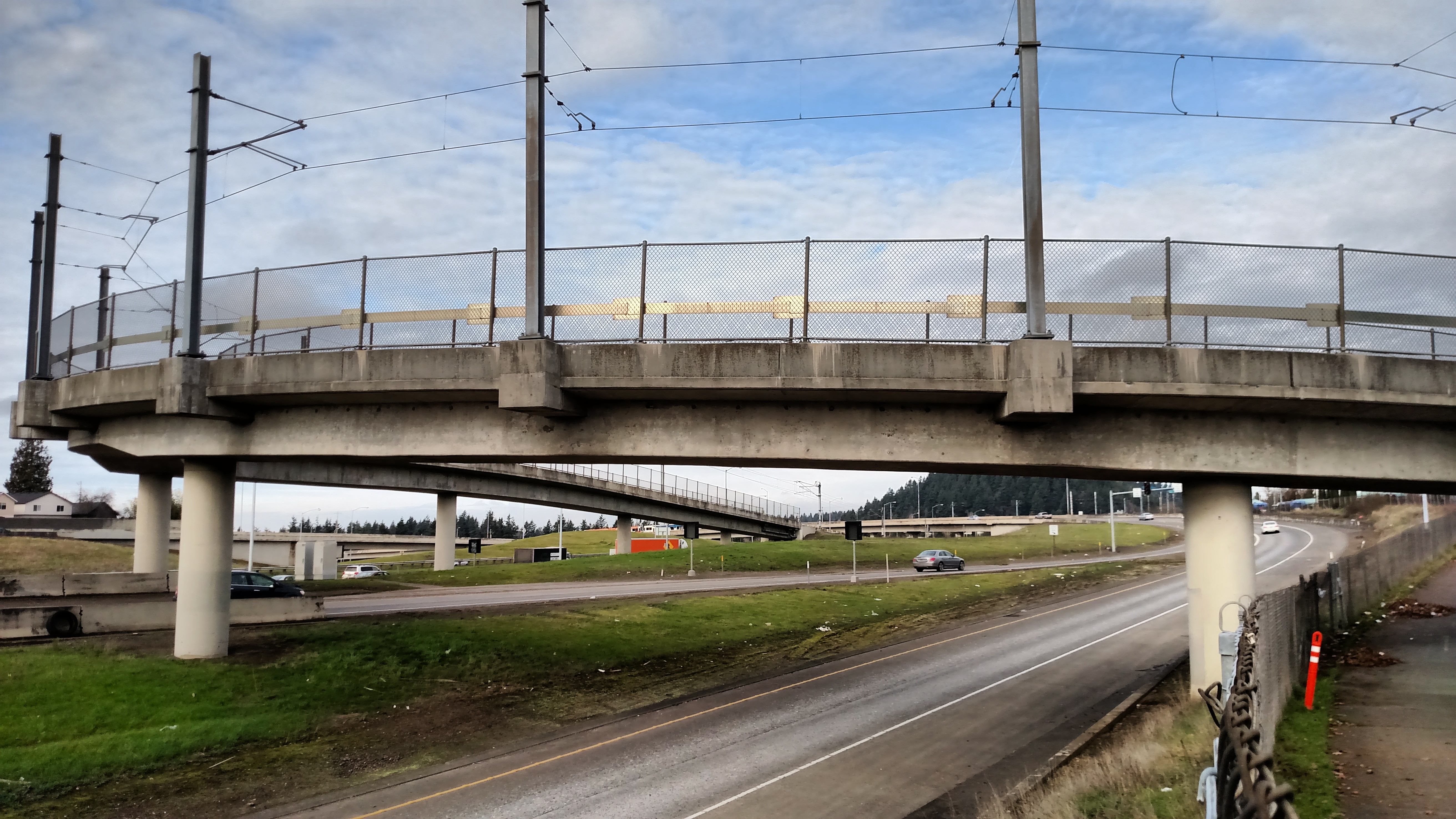 Curved bridge which carries the MAX Red Line over I-205 exit ramps south of Gateway Transit Center in February 2018